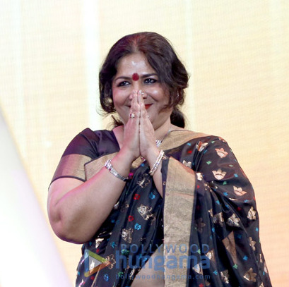 Malayalam actress Jayabharathi at the 61st Filmfare Awards South, 2014